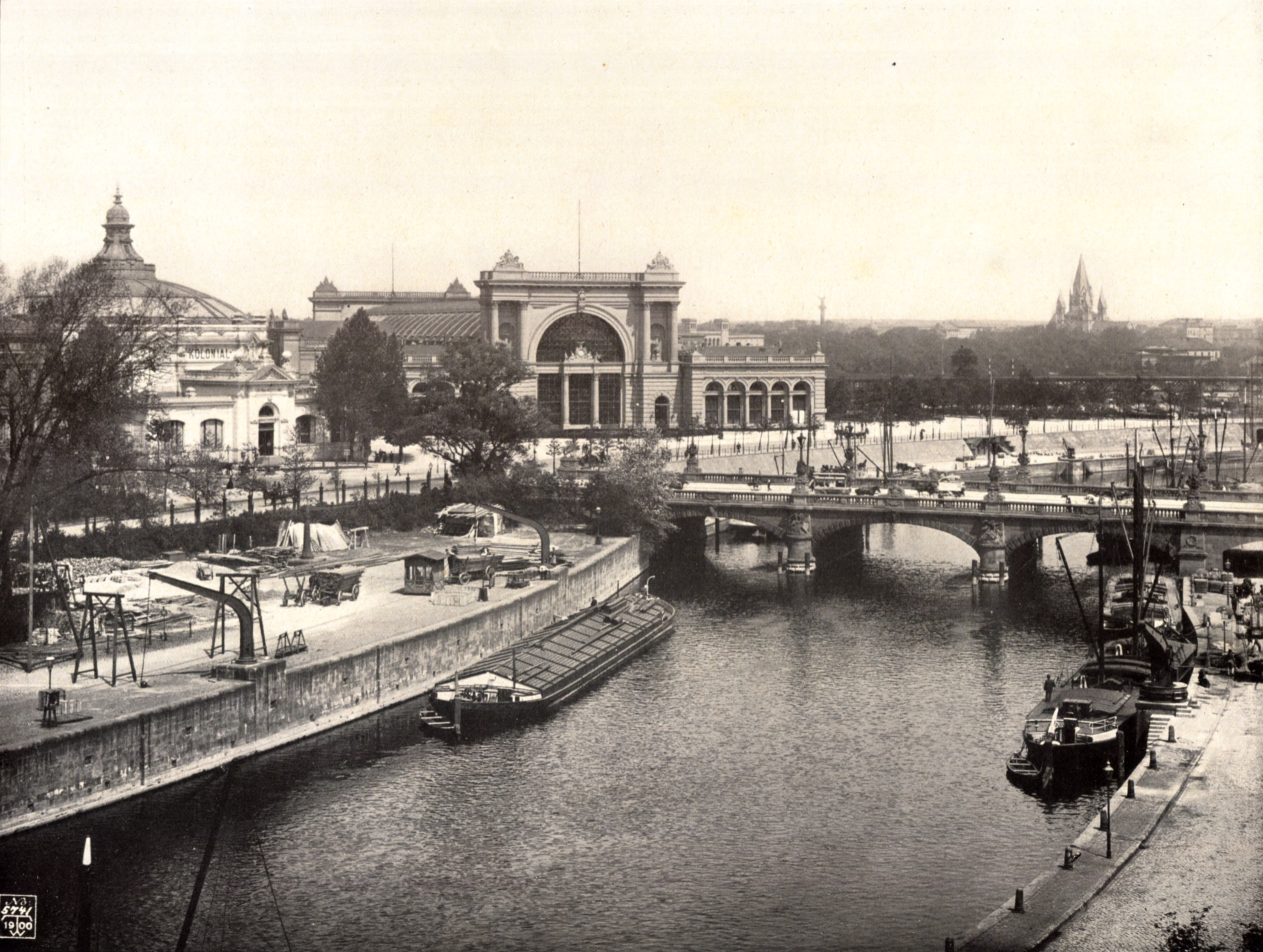 Berlin-Moabit, Moltkebrücke (Moltke Bridge), Deutsches Kolonialmuseum (German Museum of Colonialism) and Lehrter Bahnhof (Lehrte Station